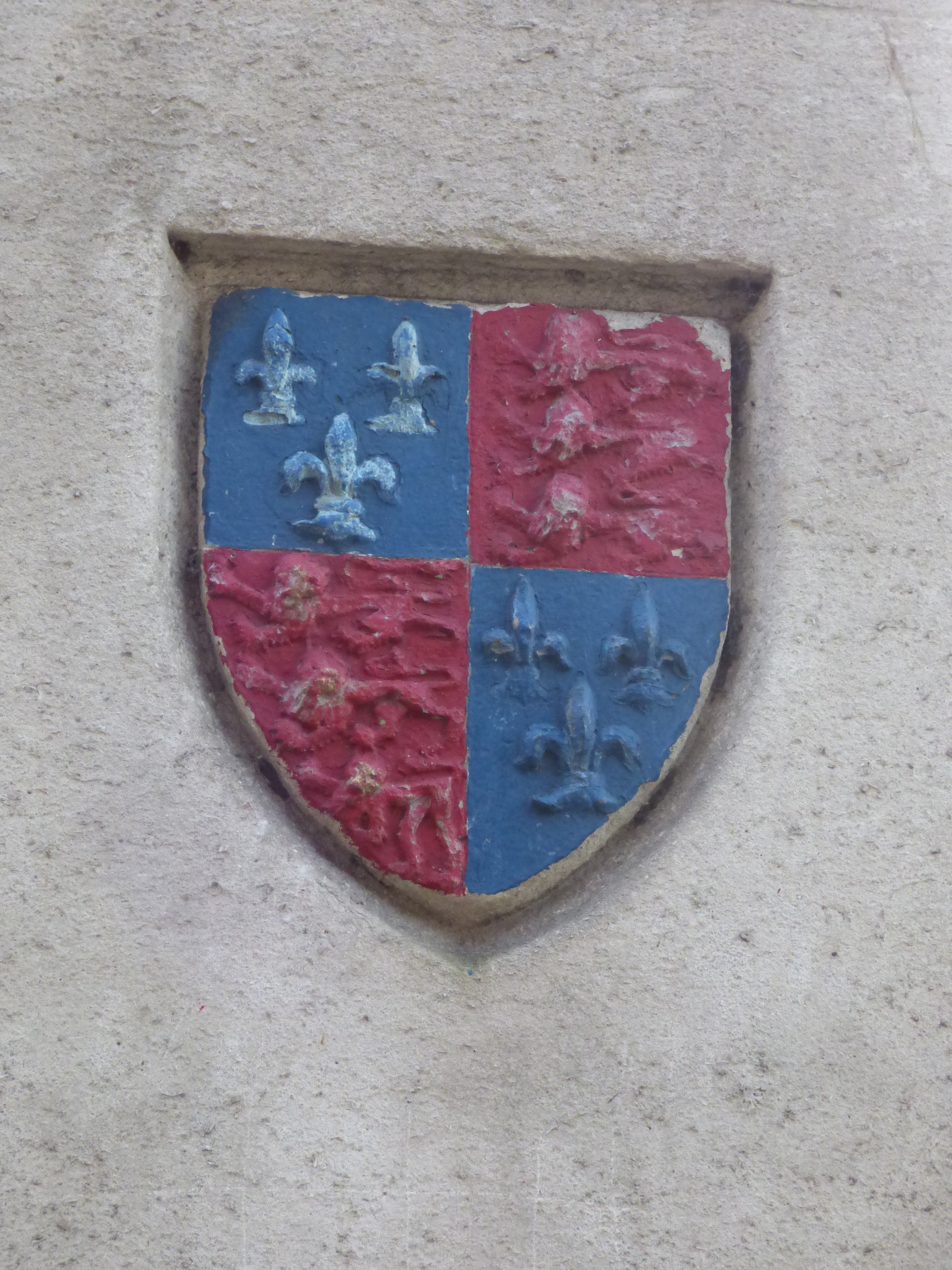 A cross seen at the bottom of Pride Hill in Shrewsbury. Shield - Royal arms It had been the site of execution in medieval times. But this is not the original cross. The destroyed cross was known as the High Cross. Place of execution of Earl of Worcester and others after the Battle of Shrewsbury in 1403. Dafydd III, last native Prince of Wales, also executed here in 1283. Taken down in 1705 or 1687. A medieval cross used as a place of assembly and execution. This cross dates to 1952. High Cross (aka Butter Cross) Modern stone cross on the site of earlier crosses. Two octagonal steps supporting a triangular shaft. From this rises an octagonal drum supported from the shaft by brackets and surmounted by the Latin style cross. Inscription on north-east face shaft; roundels with pigmented arms of Shrewsbury A cross was erected on the site in 1903 as part of the 500-year Battle of Shrewsbury celebrations and was taken down in 1905, then replaced in 1952. This cross commemorates the traditional site where Sir Henry Percy (Hotspur) was exhibited after the Battle of Shrewsbury, crushed beneath a millstone, before being dismembered and fragments of him exhibited through out the Kingdom.